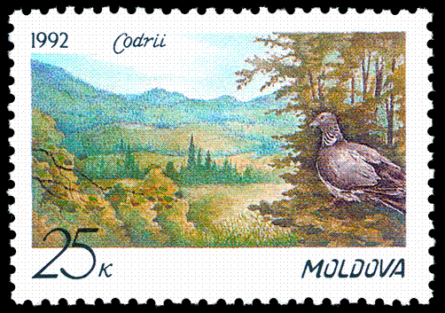 Stamp of Moldova